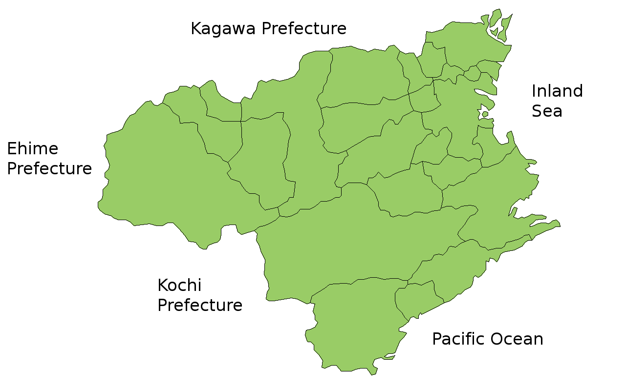 Map of Tokushima Prefecture, Japan. Thanks to Aoki Shigenobu and [1]. Colors from Image:TokyoMapCurrent.png by User:Fg2.